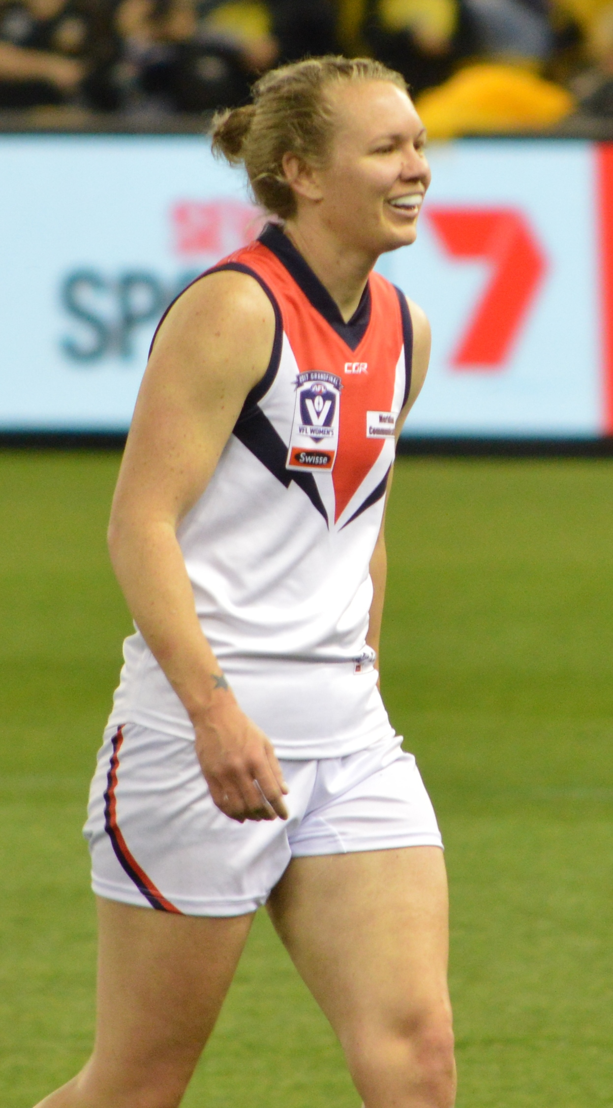 Aasta O'Connor during the 2017 VFL Women's Grand Final.